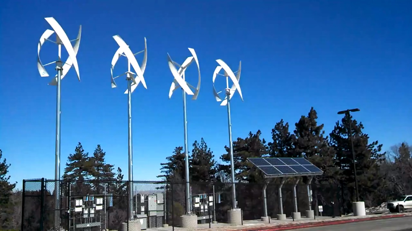 This is a picture of the newly installed Windmills and Solar Panels at Rim of the World High School